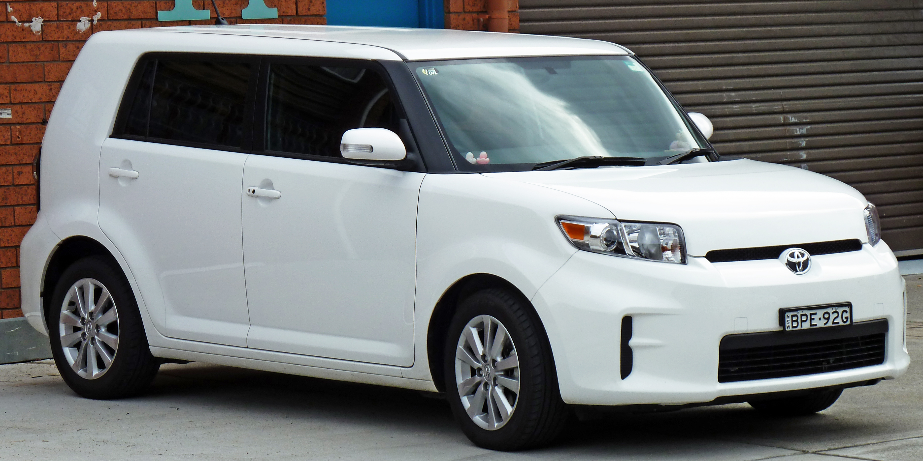 2010 Toyota Rukus (AZE151R) hatchback. Photographed in Taren Point, New South Wales, Australia.